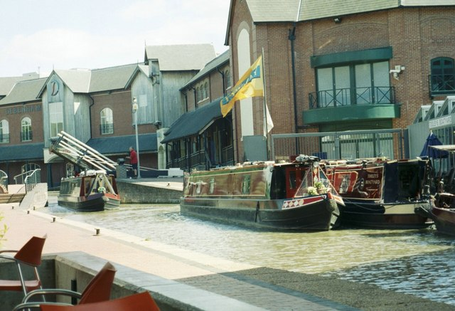 Oxford Canal and Castle Quay Shopping Centre, Banbury. Busy scene on the Oxford Canal at Banbury. The architecture of the modern Castle Quay Shopping Centre reflects the warehouses of a previous era when this was a busy commercial area. Just the right there is a chandlery with some of its original building. View from the museum cafe.